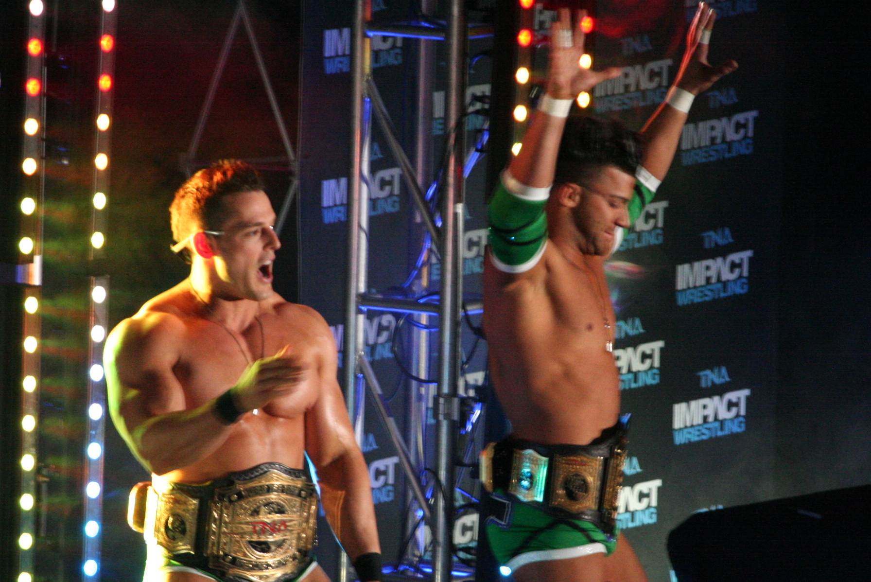 The Bromans (Jessie Godderz, left, and Robbie E, right) as the TNA World Tag Team Champions in April 2014 in Concord, NC. Cropped from original.